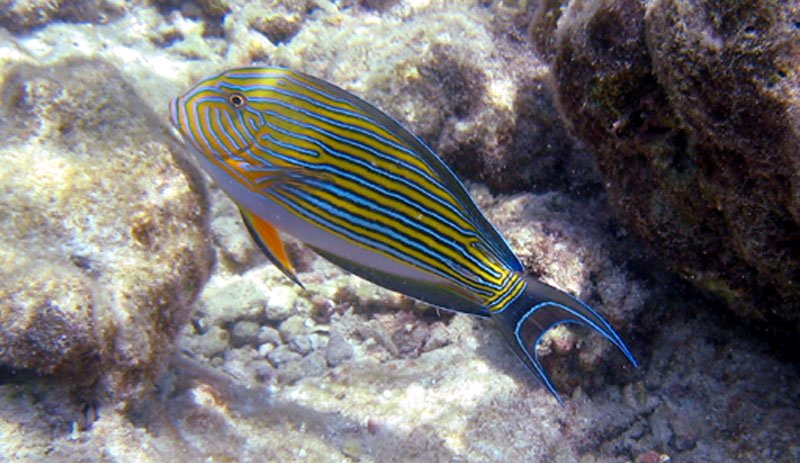 Acanthurus lineatus